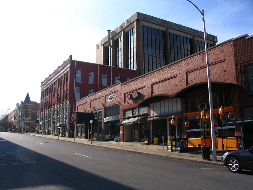 This is Block Street. Block intersects with Center at the top of the hill, where the Lewis Brothers building is with the cupola.